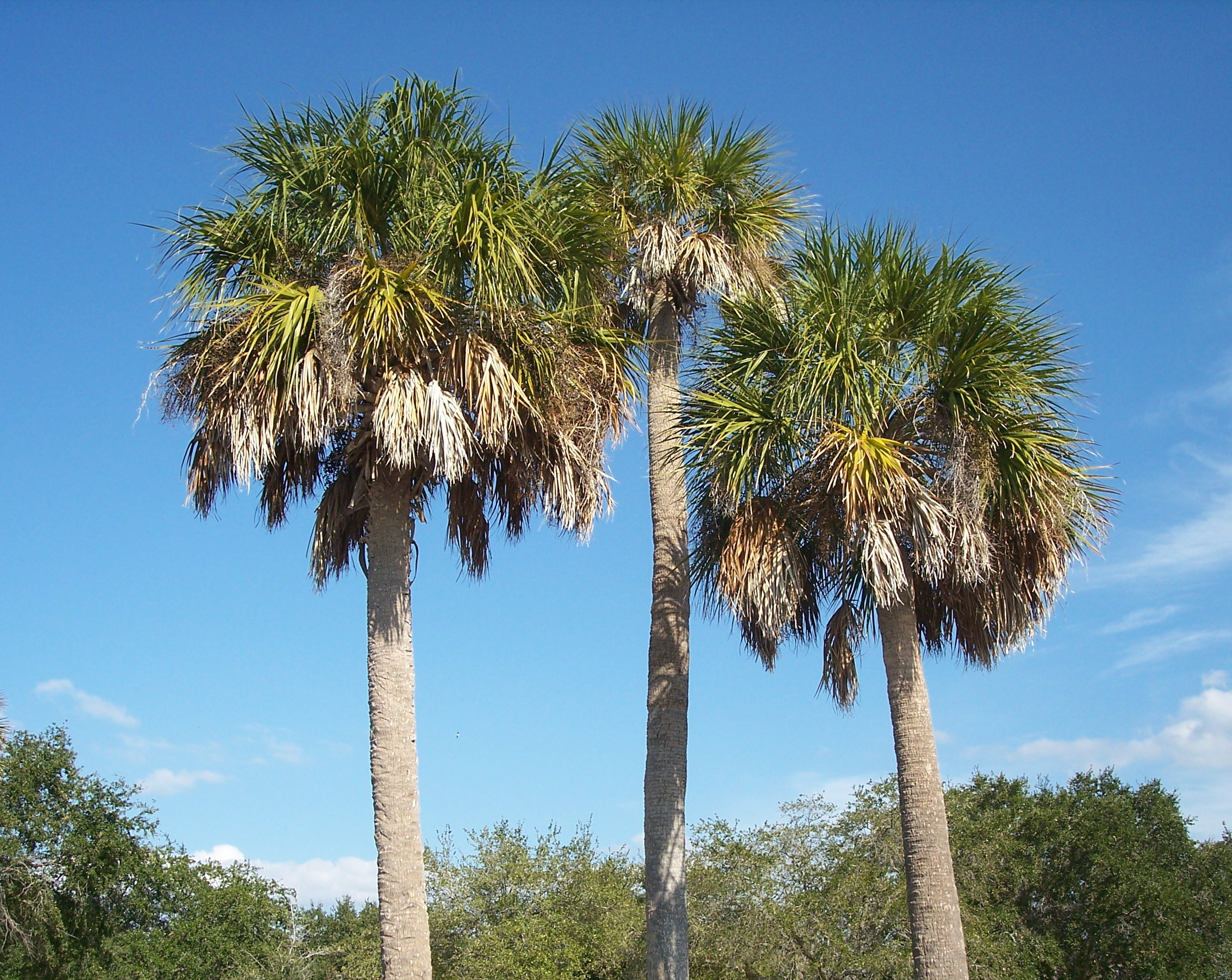 Sabal palmettos in Florida